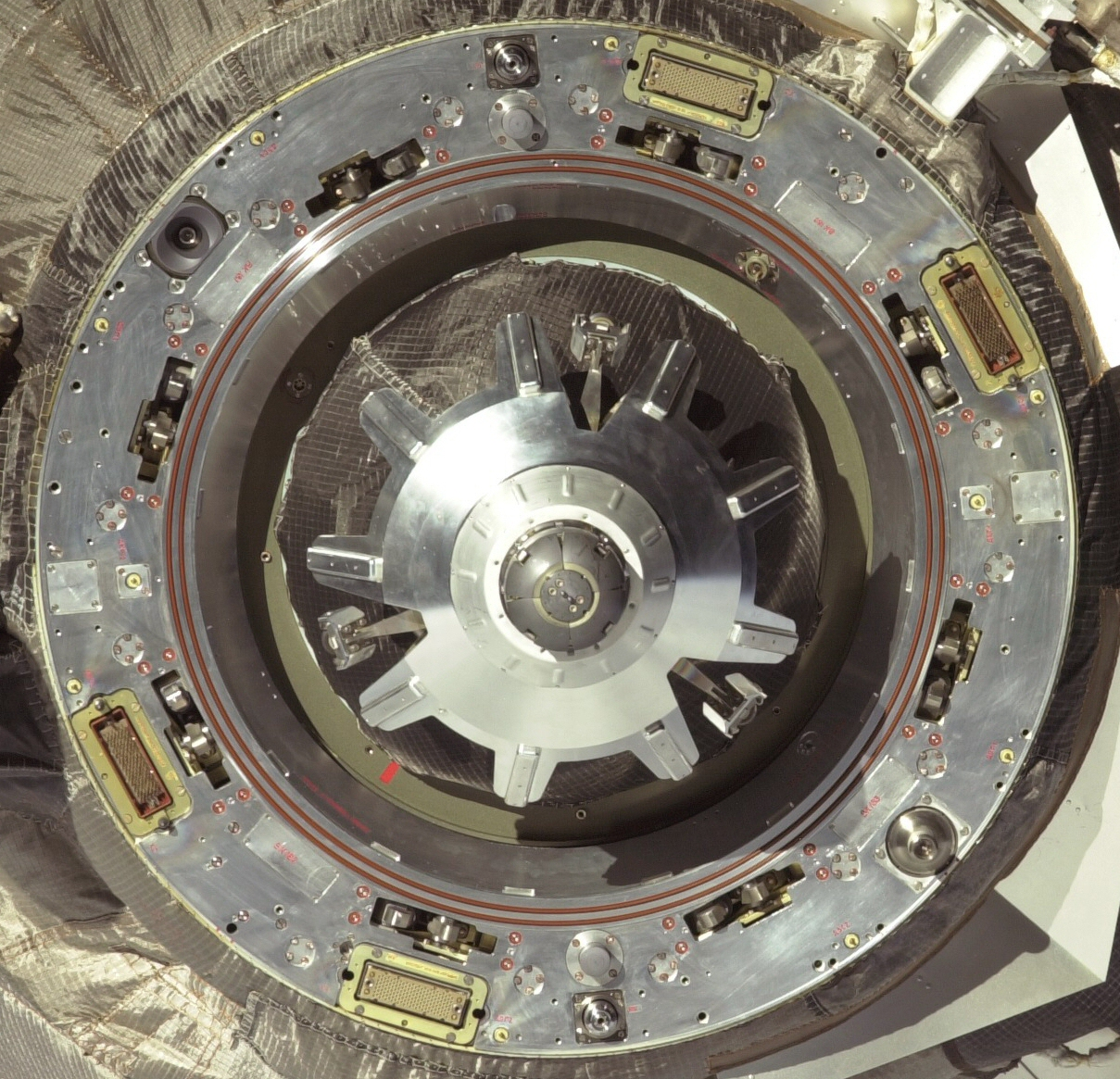 This close-up view of an unpiloted Progress supply vehicle was taken by one of the crewmembers onboard the International Space Station (ISS) as it approached the aft docking port (out of frame) on the Zvezda Service Module. The Progress 12 resupply craft, which launched from the Baikonur Cosmodrome in Kazakhstan at 8:48 p.m. (CDT) on August 28, 2003, carried nearly three tons of food, fuel, water, supplies and scientific gear for the Expedition 7 crew aboard the Station. The Progress linked up with the Station at 10:40 p.m. (CDT) on August 30, 2003 as the two spacecraft were flying over Central Asia at an altitude of 240 statute miles.